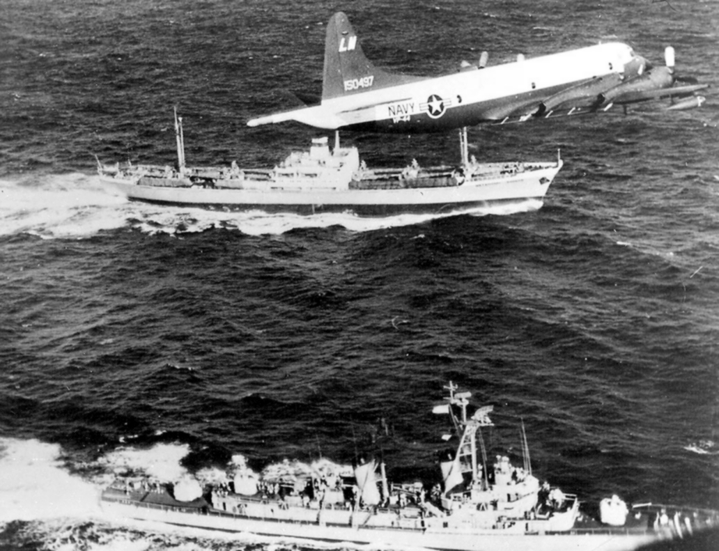 A U.S. Navy Lockheed P-3A-20-LO Orion (BuNo 150497) of Patrol Squadron VP-44 flies over the Soviet ship Metallurg Anosov and destroyer USS Barry (DD-933) during the Cuban Missile Crisis.Barry had been ordered to investigate a Soviet merchantman, proceeded to her station on 9 November 1962 and sighted the merchant ship that evening. She closed to within 370 m on the merchantman's starboard quarter, illuminated the ship's quarter and bow, and identified her as the Soviet-registry Metallurg Anosov. Trailing astern, Barry followed the merchant ship, heading east away from the quarantine zone, until morning. After dawn, the destroyer closed the merchant, to "obtain photographs of deck cargo", until late morning when Barry shaped course for the aircraft carrier USS Essex (CVS-9) for refueling and transfer of photographic personnel. It is maden voyage of turbine dry cargo vessel Metallurg Anosov (delivery date of the vessel 29/09/1962).